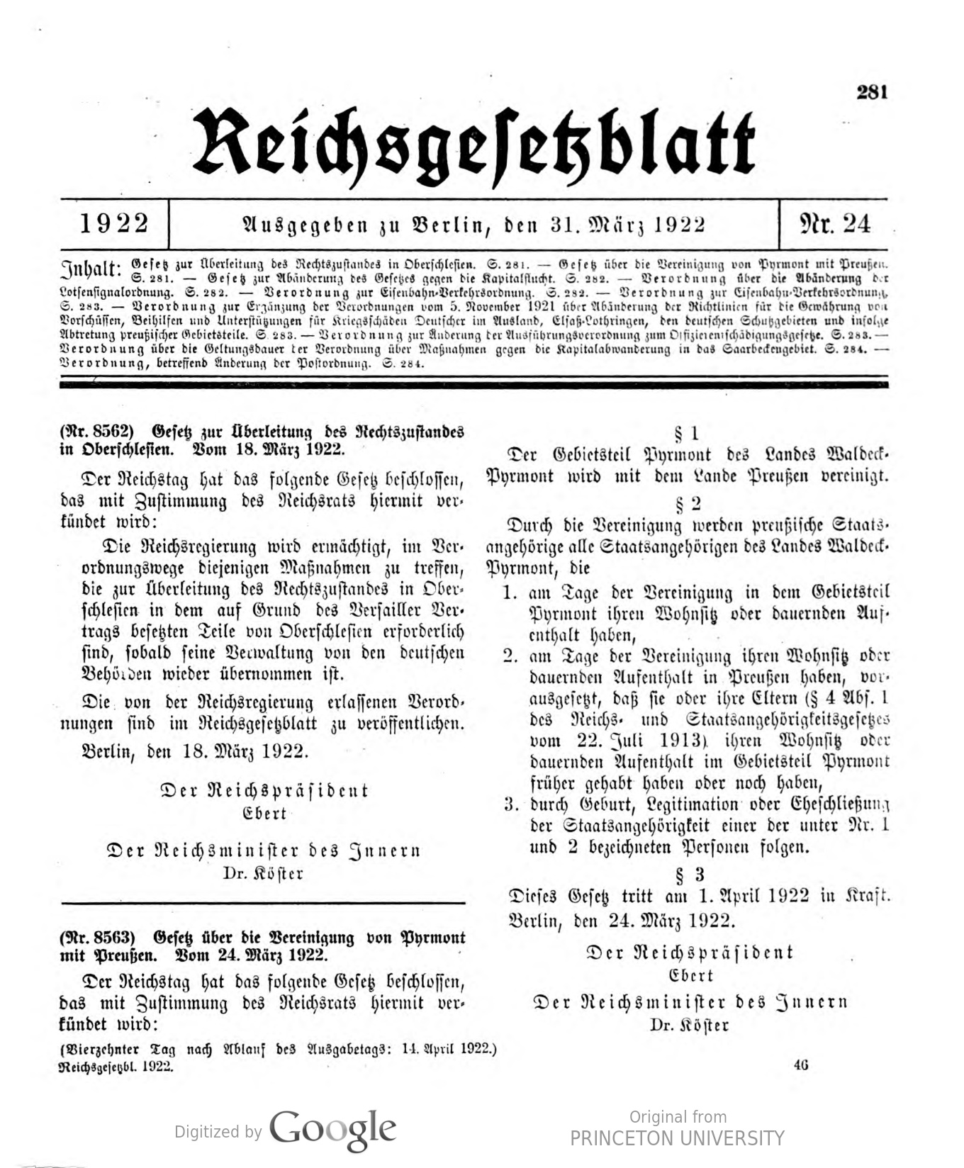 Scan from the Imperial Law Gazette of Germany, 1922, part 1